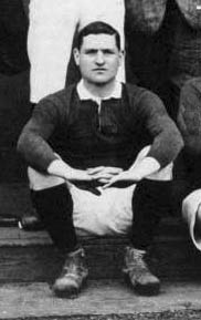 The Forest side that toured Argentina and Uruguay in the summer of 1905. Back Row L-R – Bob Norris, Harry Linacre, H Hallam (Secretary), Clifford, Chas Craig, William Shearman, H S Radford (Vice President), Sam Timmins, Alf Spouncer, Fred Lessons. Front Row L-R – Walter Dudley, Thos Davies, Thomas Niblo, George Henderson, Albert Holmes.